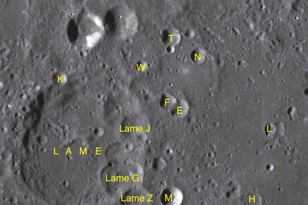 Part of the chart LAC-80 used for the presentation